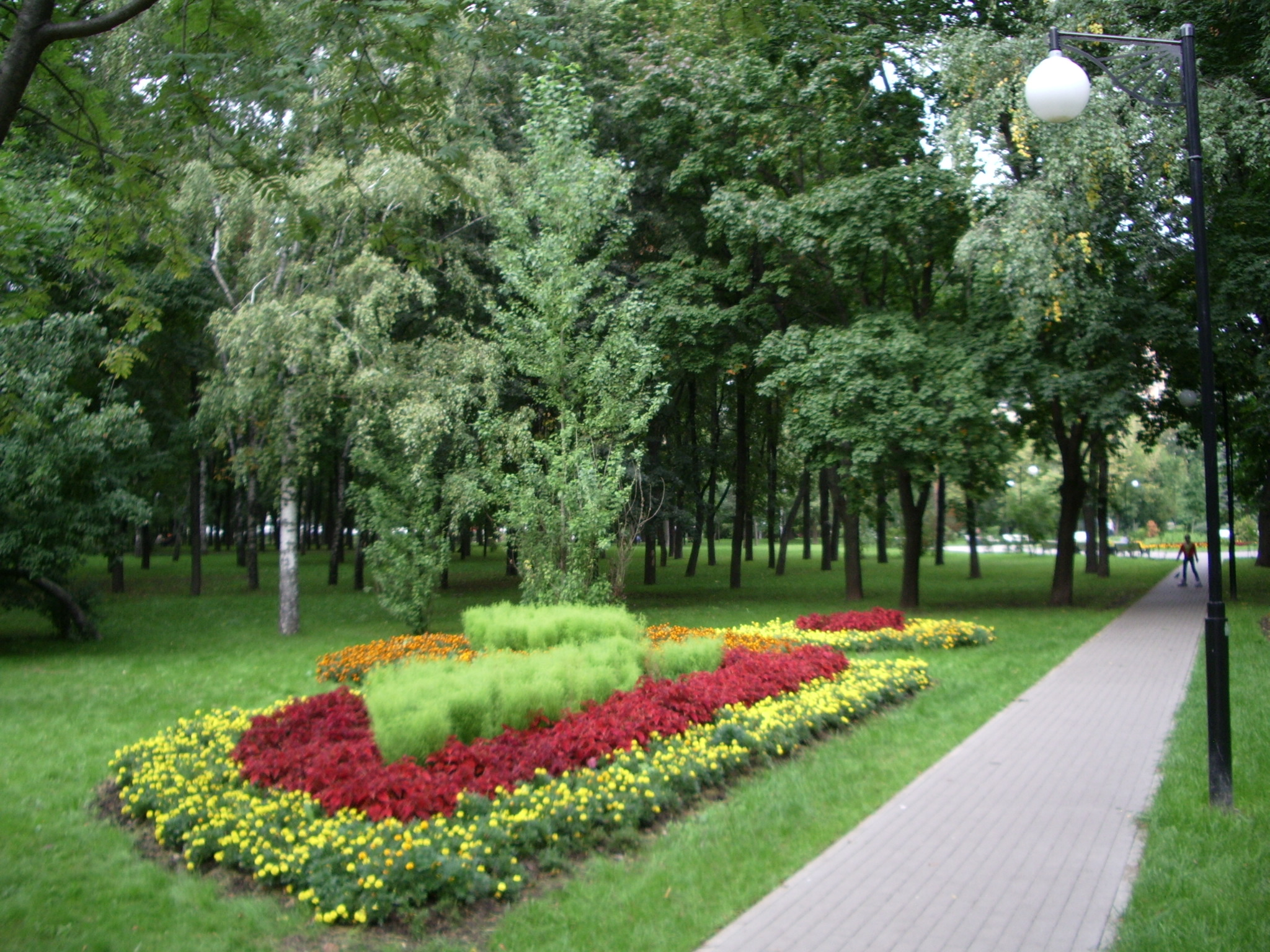 Aviators park in Moscow.